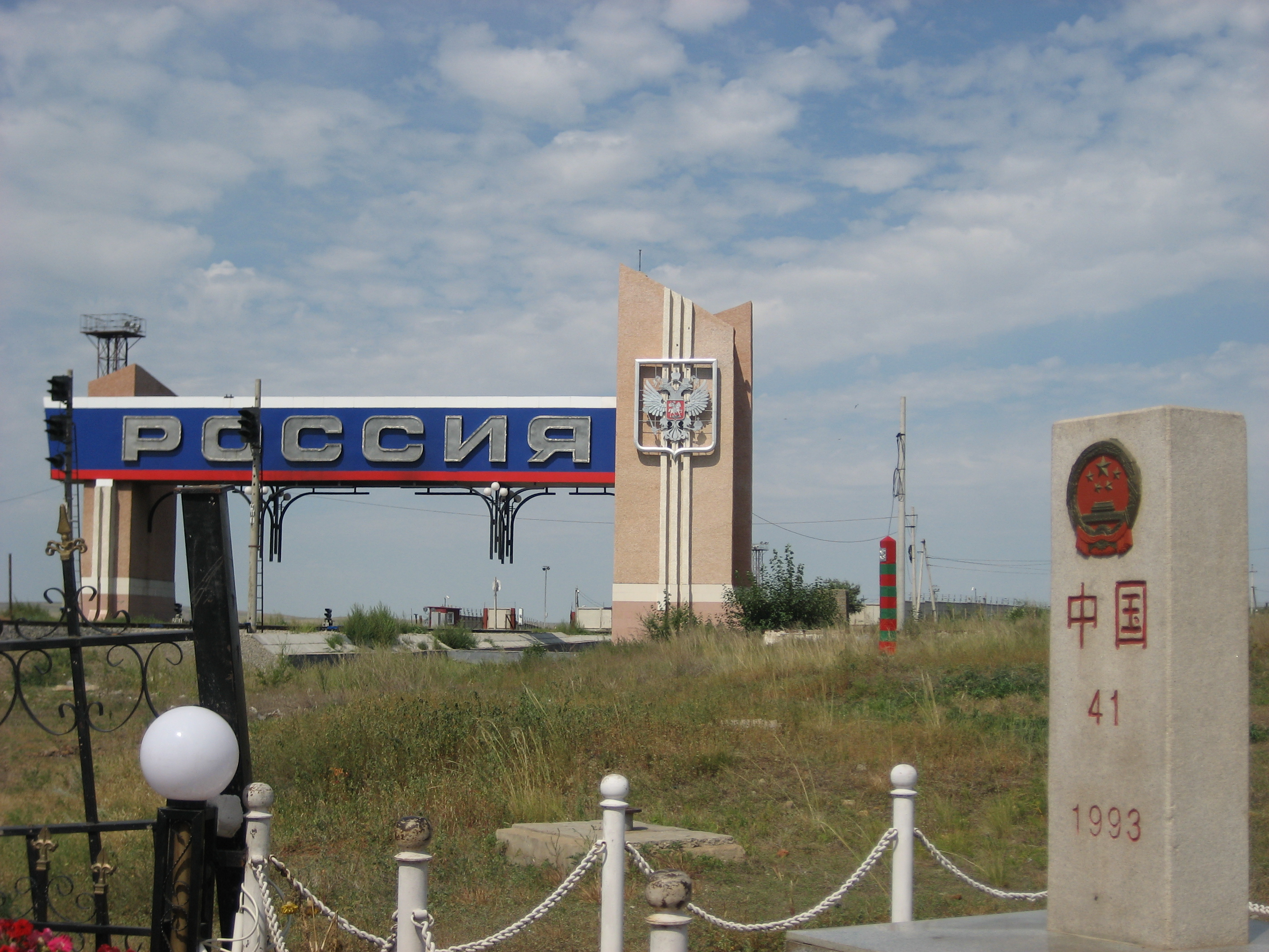 mere stone between China and Russia